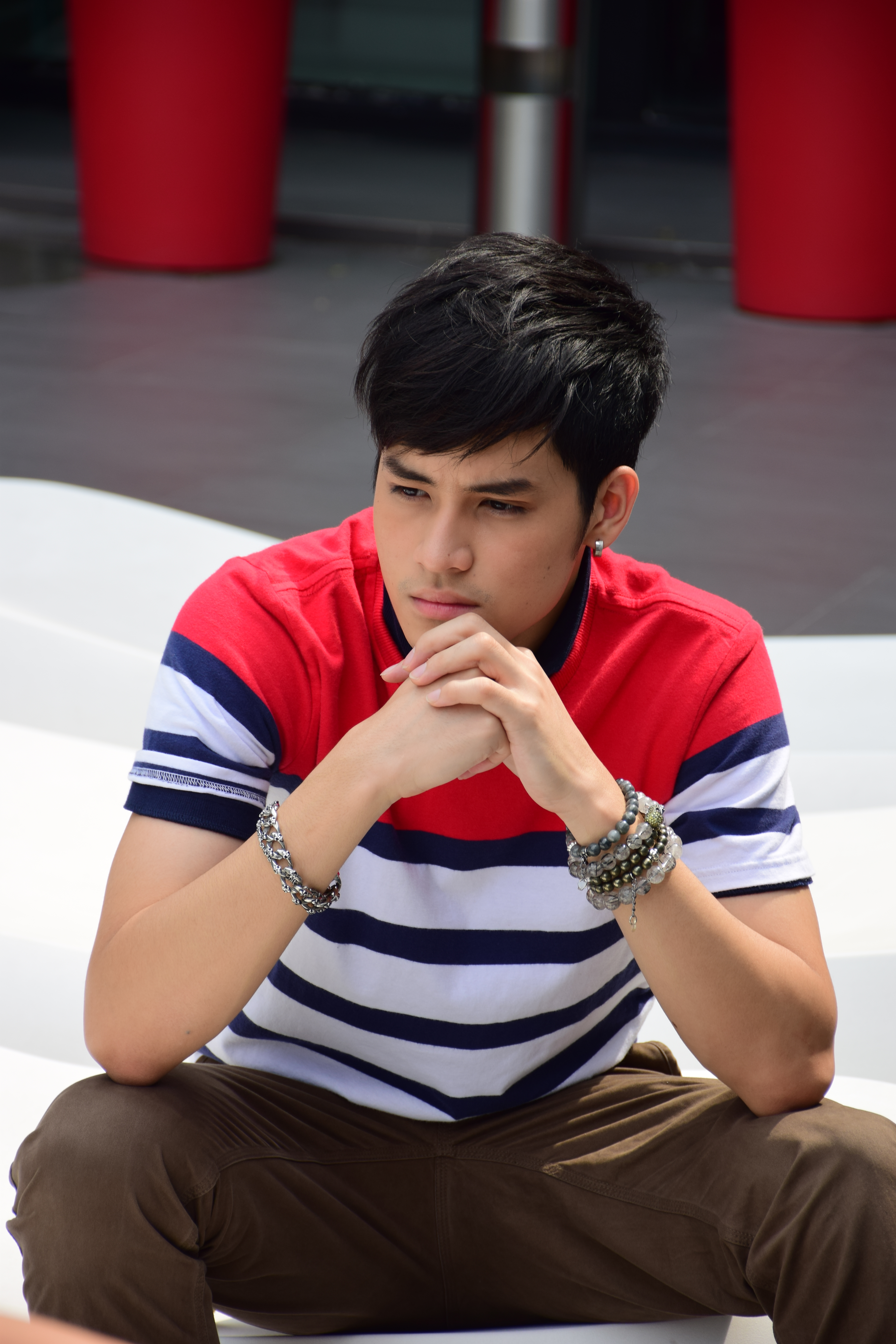 Kao Jirayu